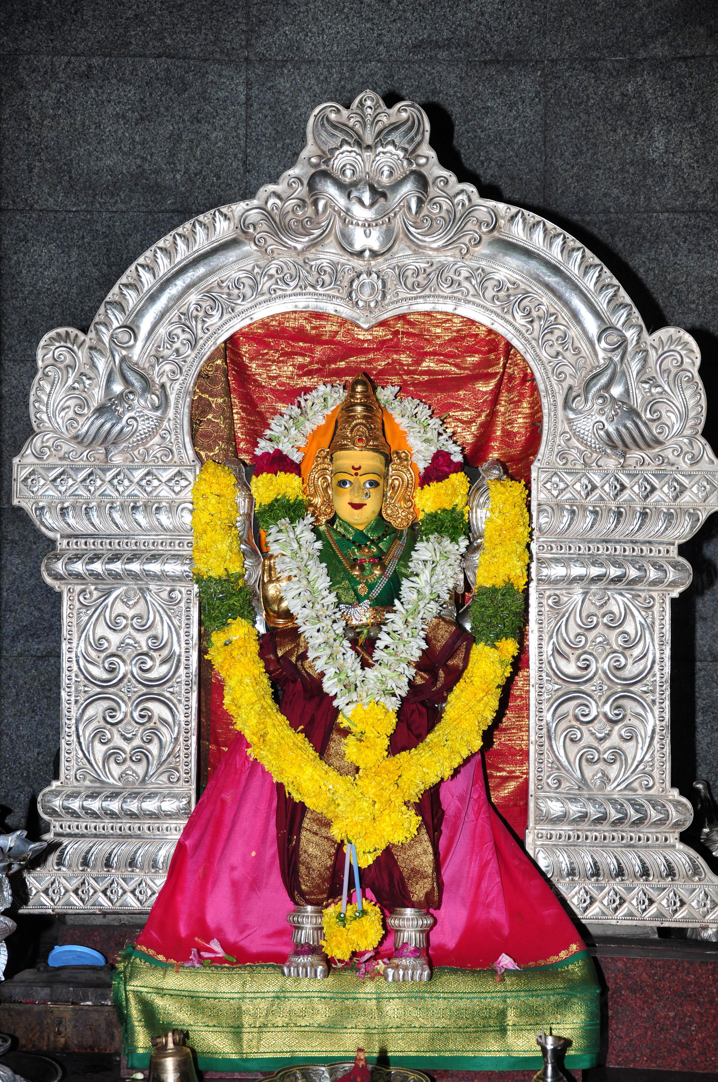 Sri Ganga Parvathi Sametha Ramalingeswara Swamy Temple - Parvathi Devi